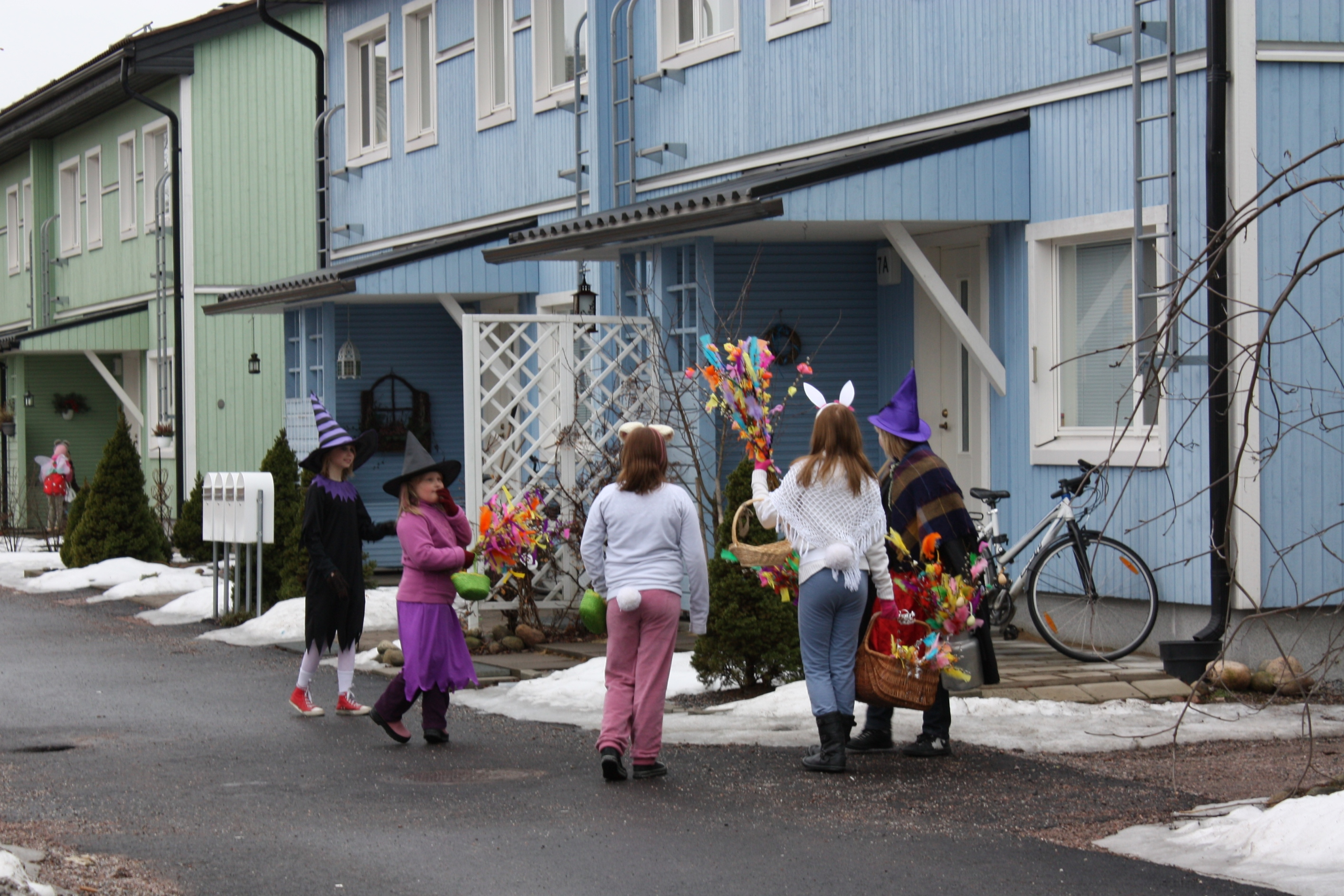 Easter witches and bunnies in Nissilänpiha Kerava, Finland 2009